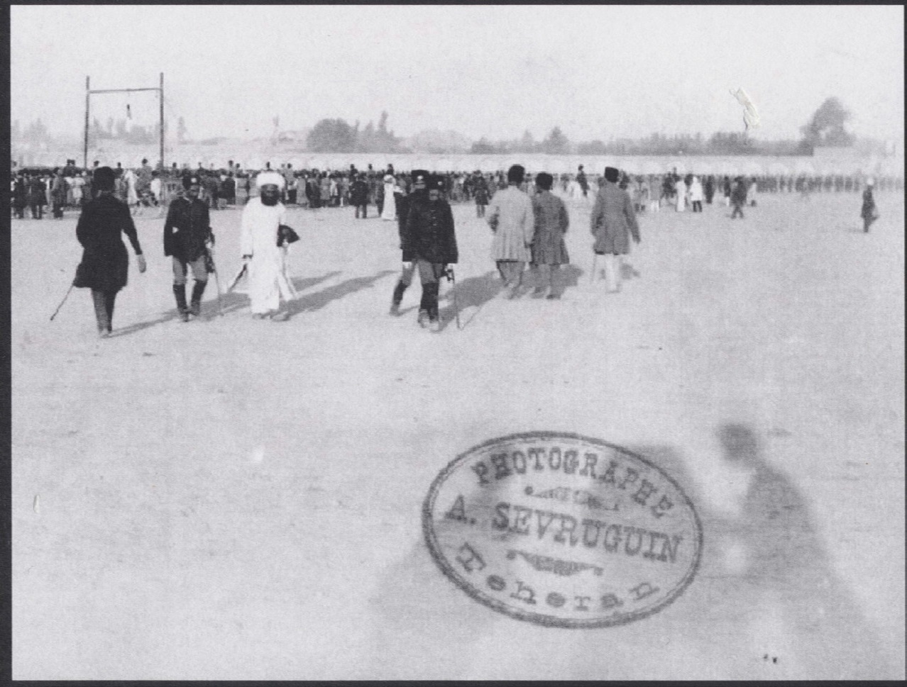 Antoin Sevruguin's historical Iran photographs. Public hanging of Mirza Reza Kermani, murderer of the Persian Shah Naser al Din (August 12, 1896).